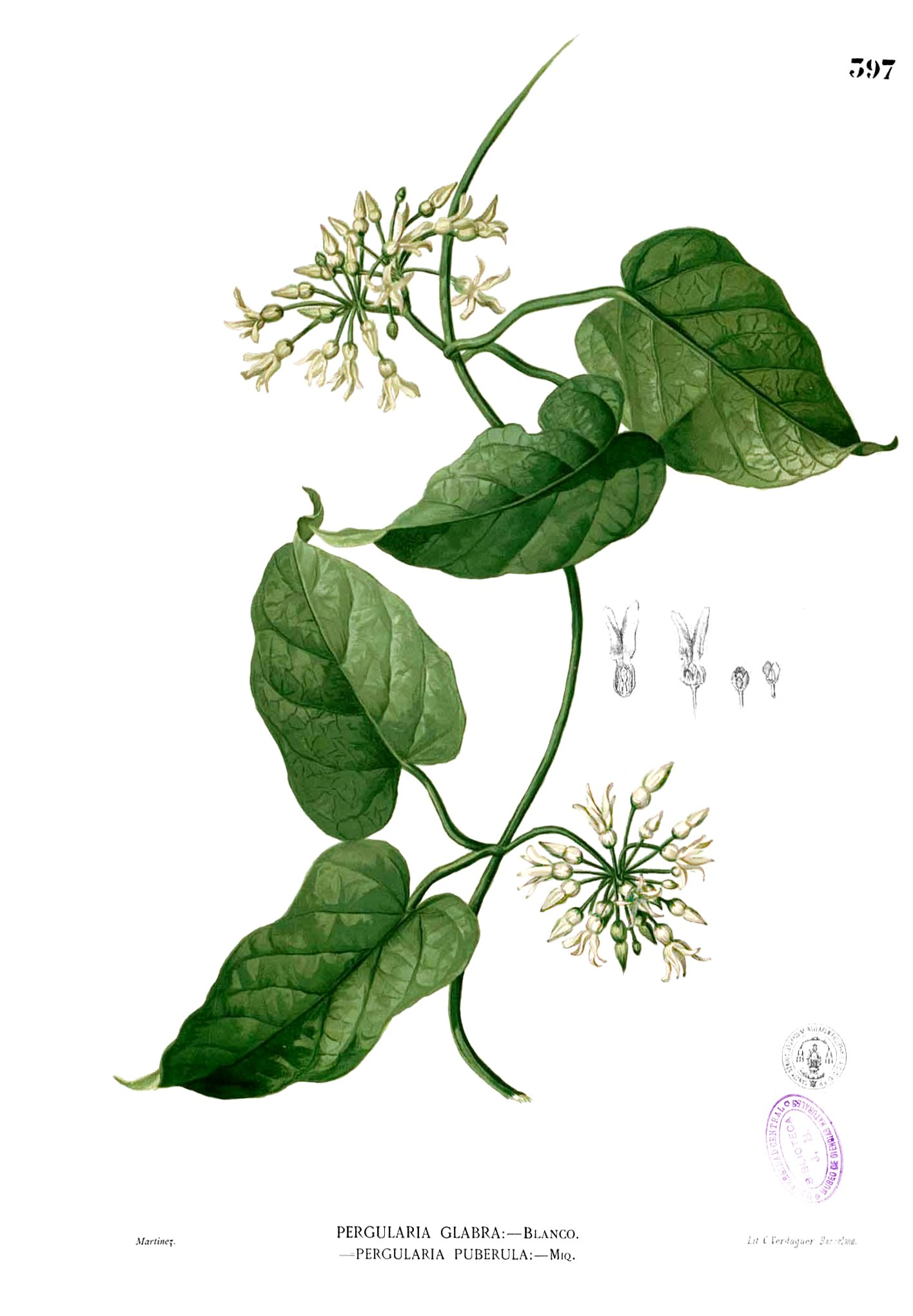 Plate from book